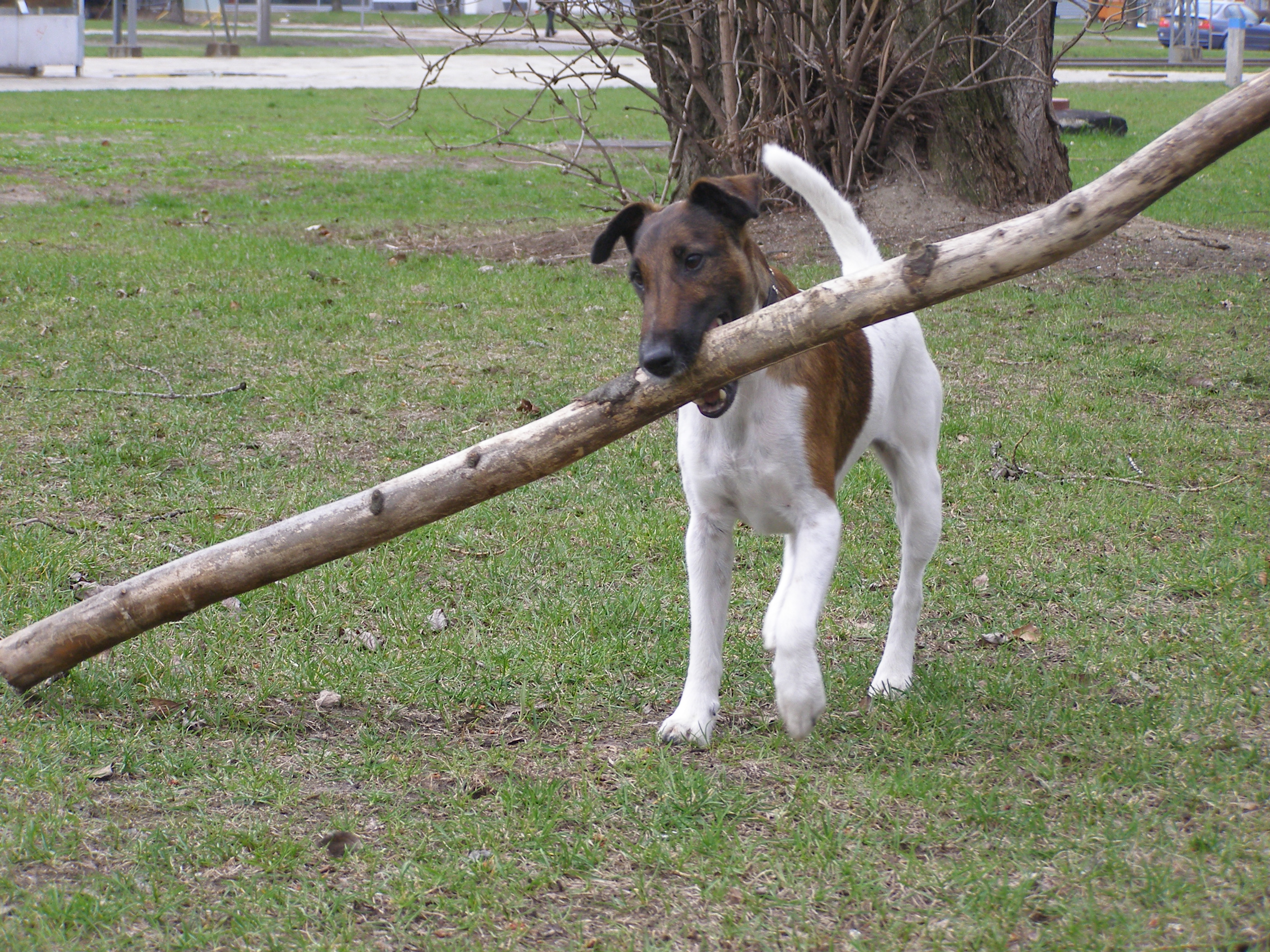 Smooth Fox Terrier from "Czeczuga" Poland